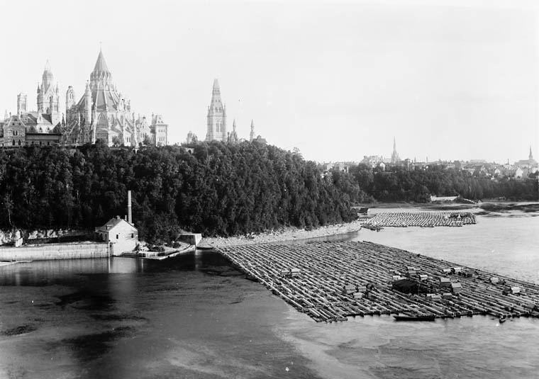 Timber rafts, parliament buildings ca. 1882, taken from nepeanpoint, Ottawa.